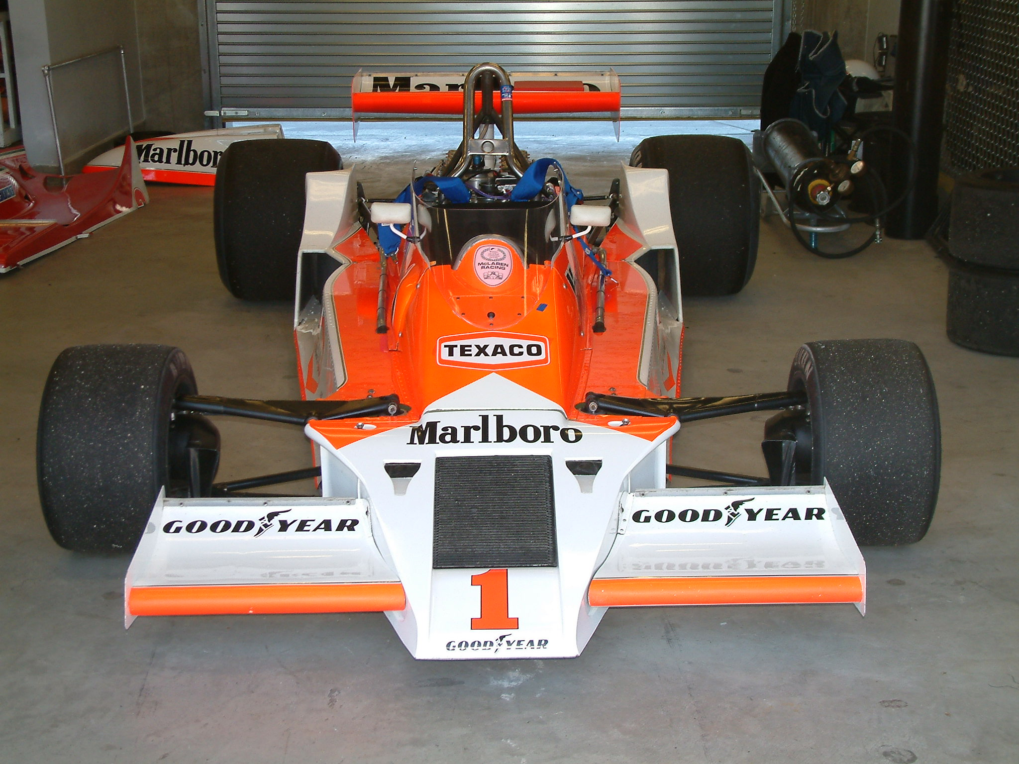 The McLaren M26 Formula One car.